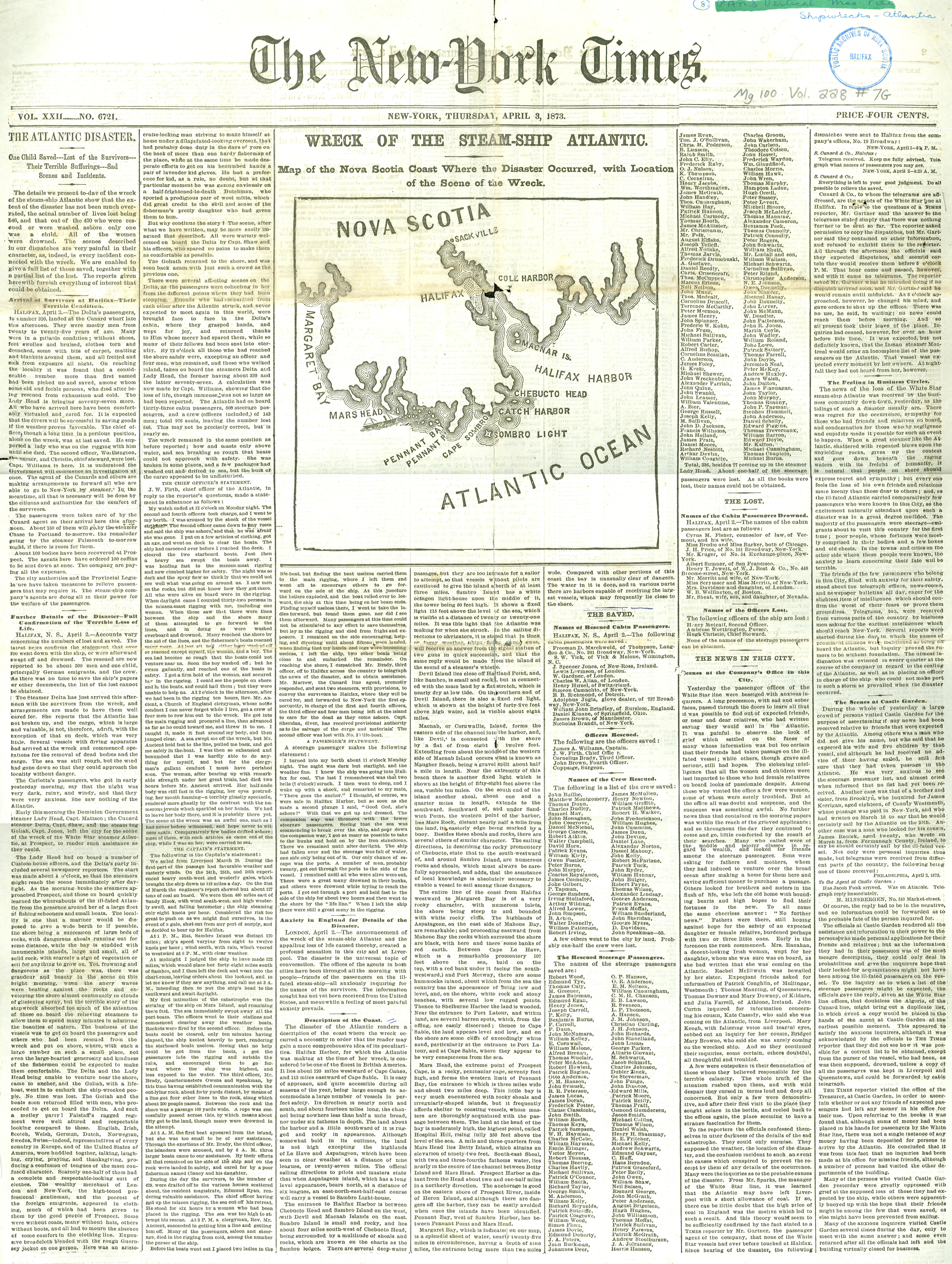 SS Atlantic disaster. Published in The New-York Times, 3 April 1873. "Map of the Nova Scotia Coast Where the Disaster Occurred, with the Location of the Scene of the Wreck." The whole front page was devoted to the tale of the disaster.